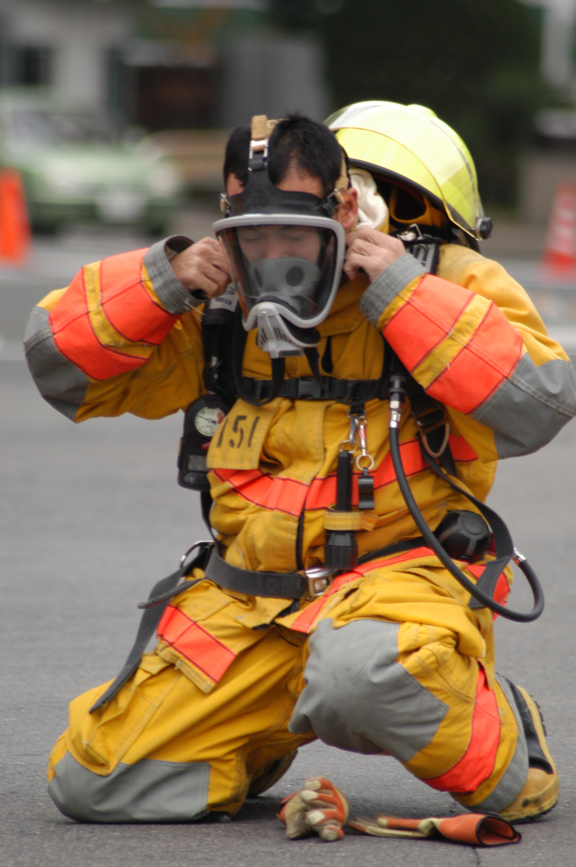 U.S. Fleet Activities Sasebo, Japan (Dec. 13, 2003) -- A fire fighter assigned to Commander U.S. Naval Forces Japan (CNFJ) Regional Fire Department dons protective equipment during a demonstration conducted as part of a recent Christmas Parade on Sasebo Naval Base. U.S. Navy photo by Photographer’s Mate 3rd Class Ian W. Anderson. (RELEASED)